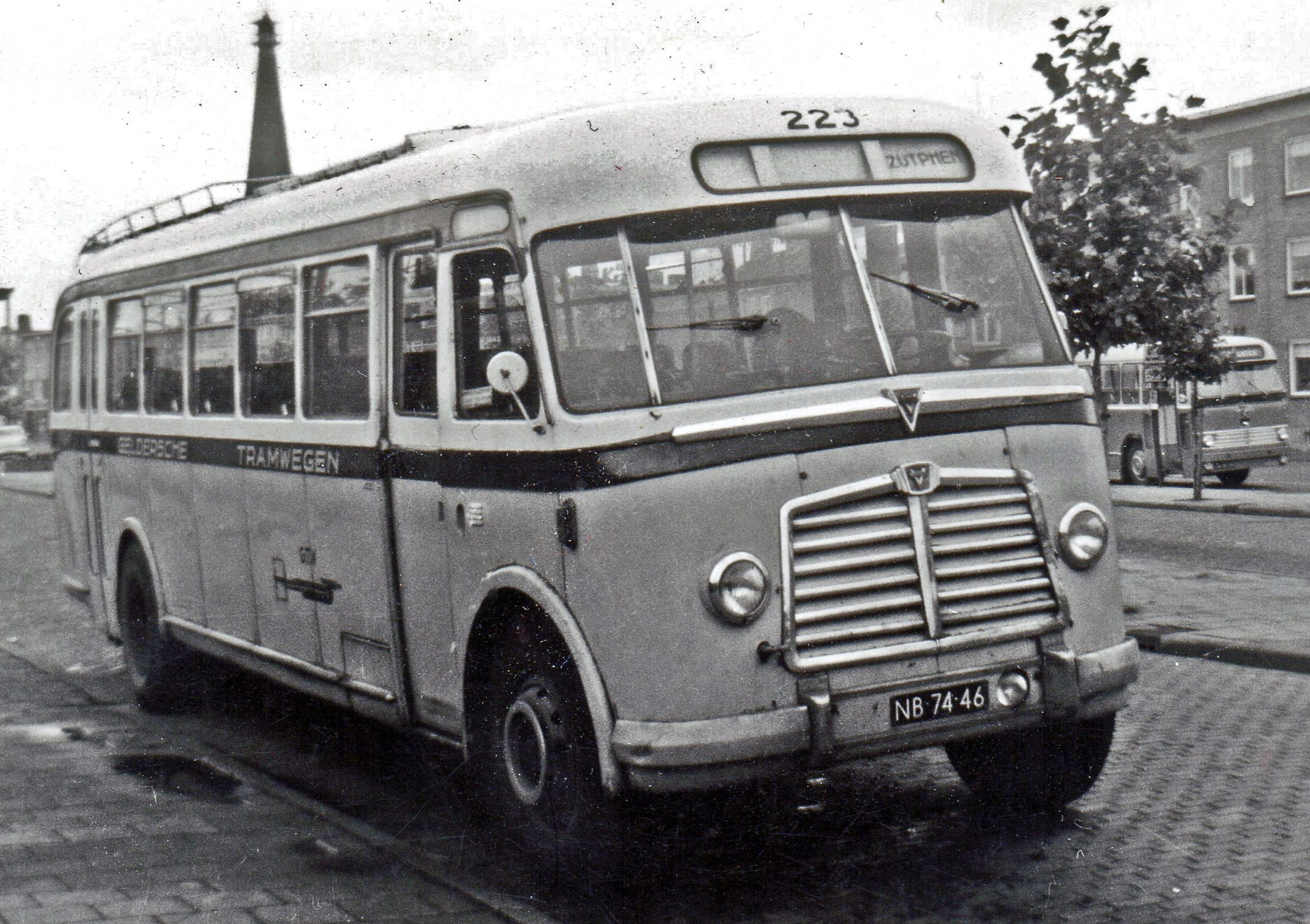 GTW (Geldersche Tramwegen) bus 223 (AEC/Verheul, bouwjaar 1949) te Zutphen in 1965